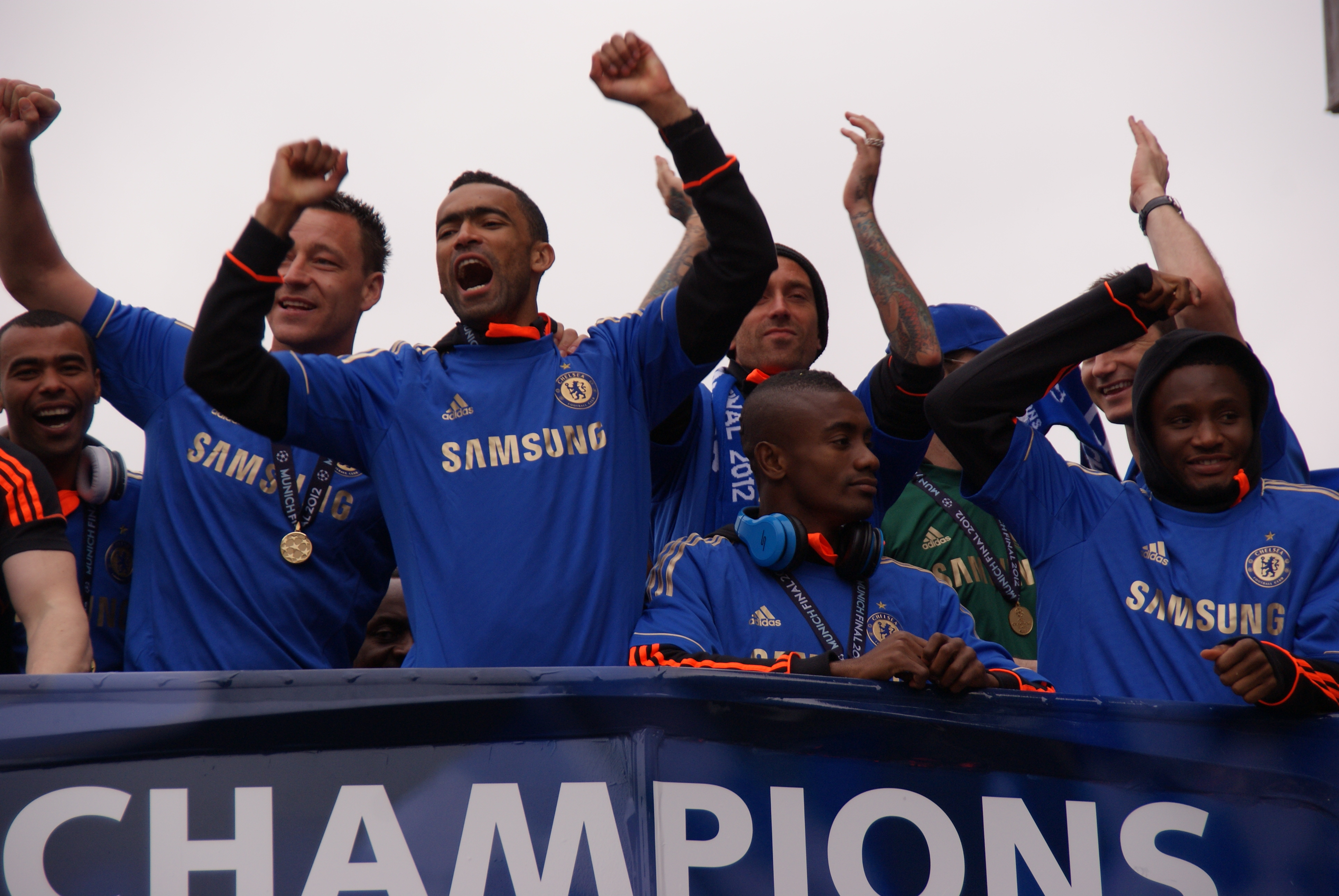 This photo was taken on Sunday 20th May 2012 during the Chelsea Football Club Parade following Chelsea's victory in the European Champions League Final.